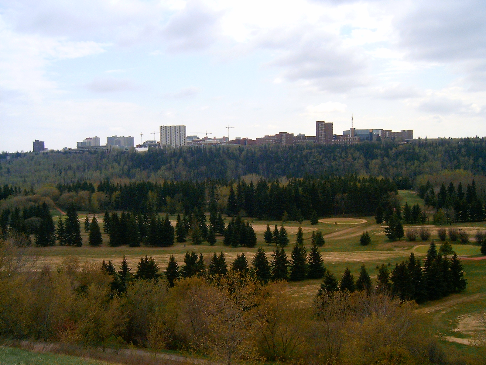 Looking south over the North Saskatchewan River valley, with a view of Victoria Golf Course and the University of Alberta.